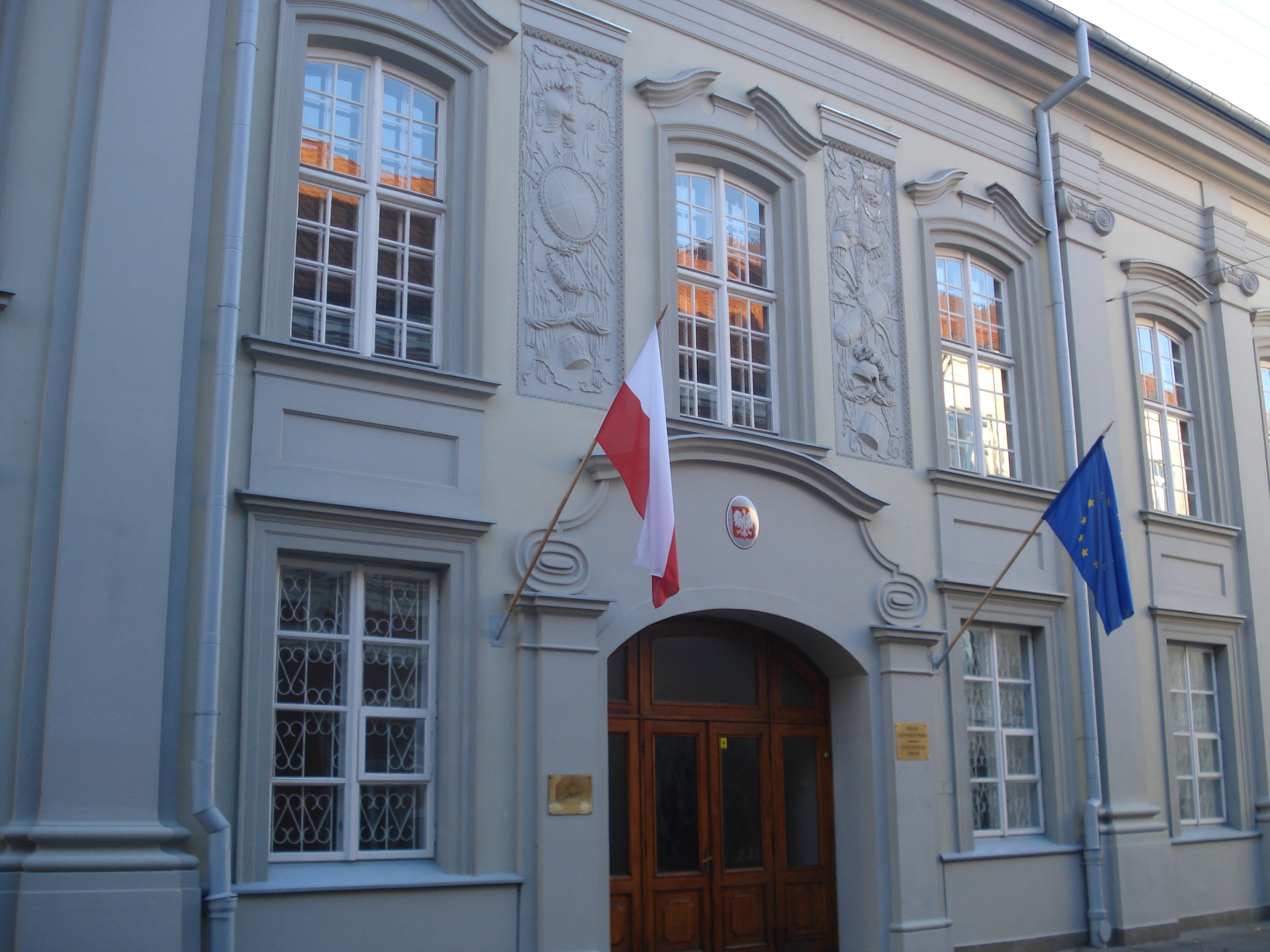 Palace of the Pac (family) in Vilnius (Švento Jono street 3), now Polish embasyy